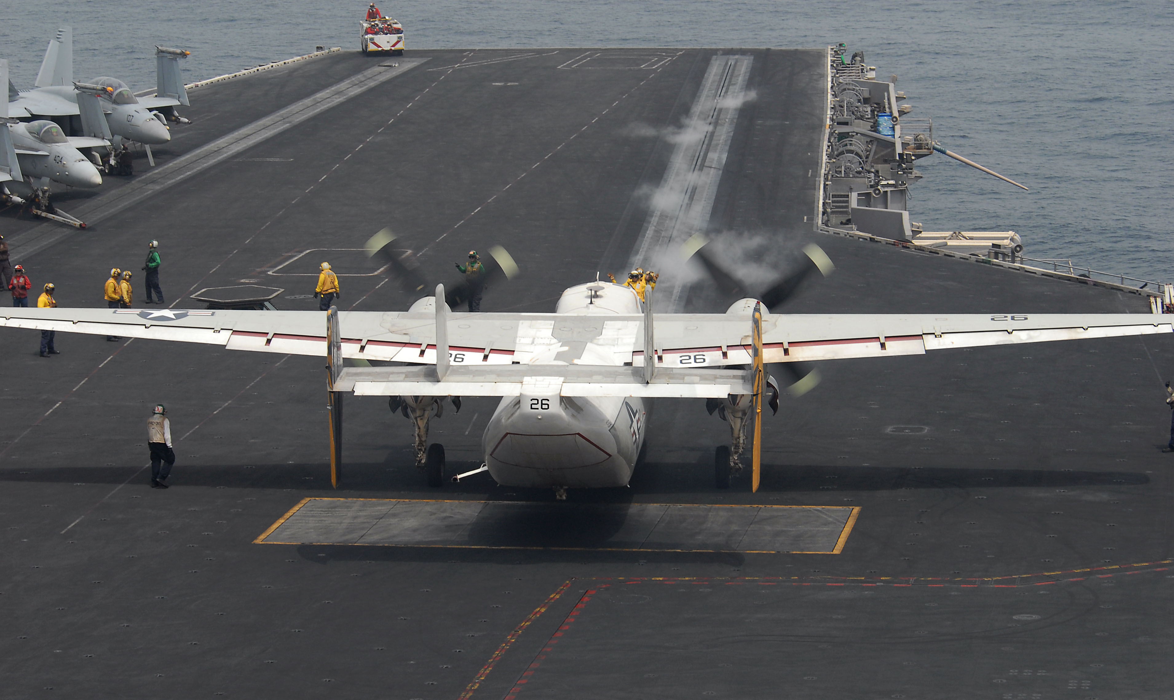 ARABIAN SEA (July 2, 2011) A C-2A Greyhound assigned to the Providers of Fleet Logistics Combat Support Squadron (VFC) 30 taxis toward a during flight operations aboard the aircraft carrier USS Ronald Reagan (CVN 76). Ronald Reagan and Carrier Air Wing (CVW) 14 are deployed to the U.S. 5th Fleet area of responsibility conducting close-air support missions as part of Operation Enduring Freedom. (U.S. Navy photo by Mass Communication Specialist 2nd Class Matthew Jackson/Released)